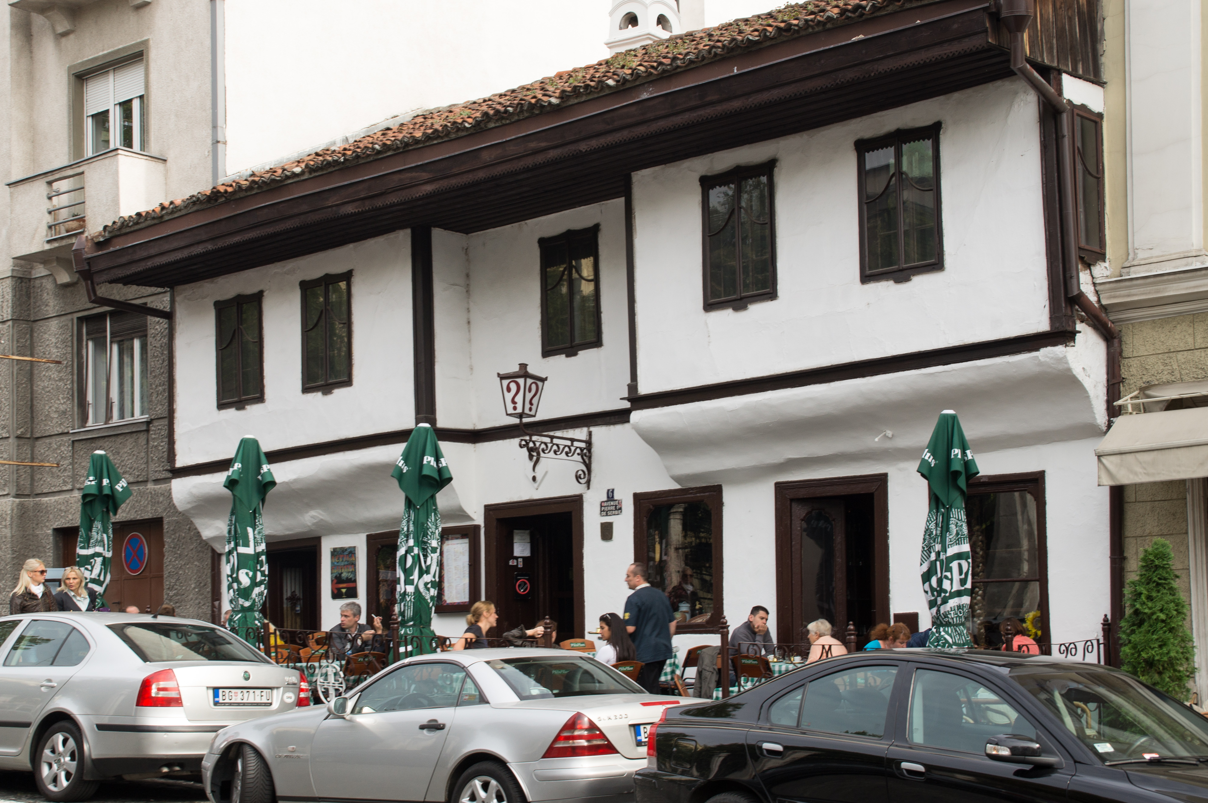 Kafana "Znak Pitanja" in Kralja Petra 6 Street in Belgrade.